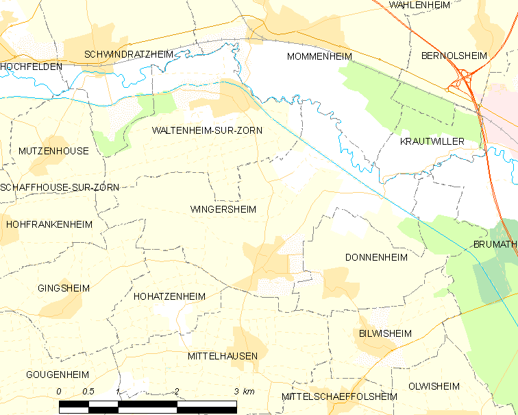 Map of French municipality